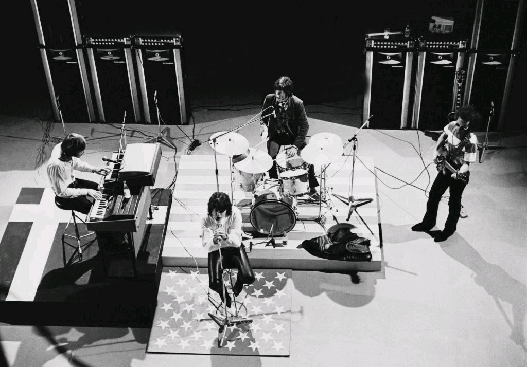 The Doors performing for Danish television in Copenhagen (Gladsaxe Television-Byen studio)